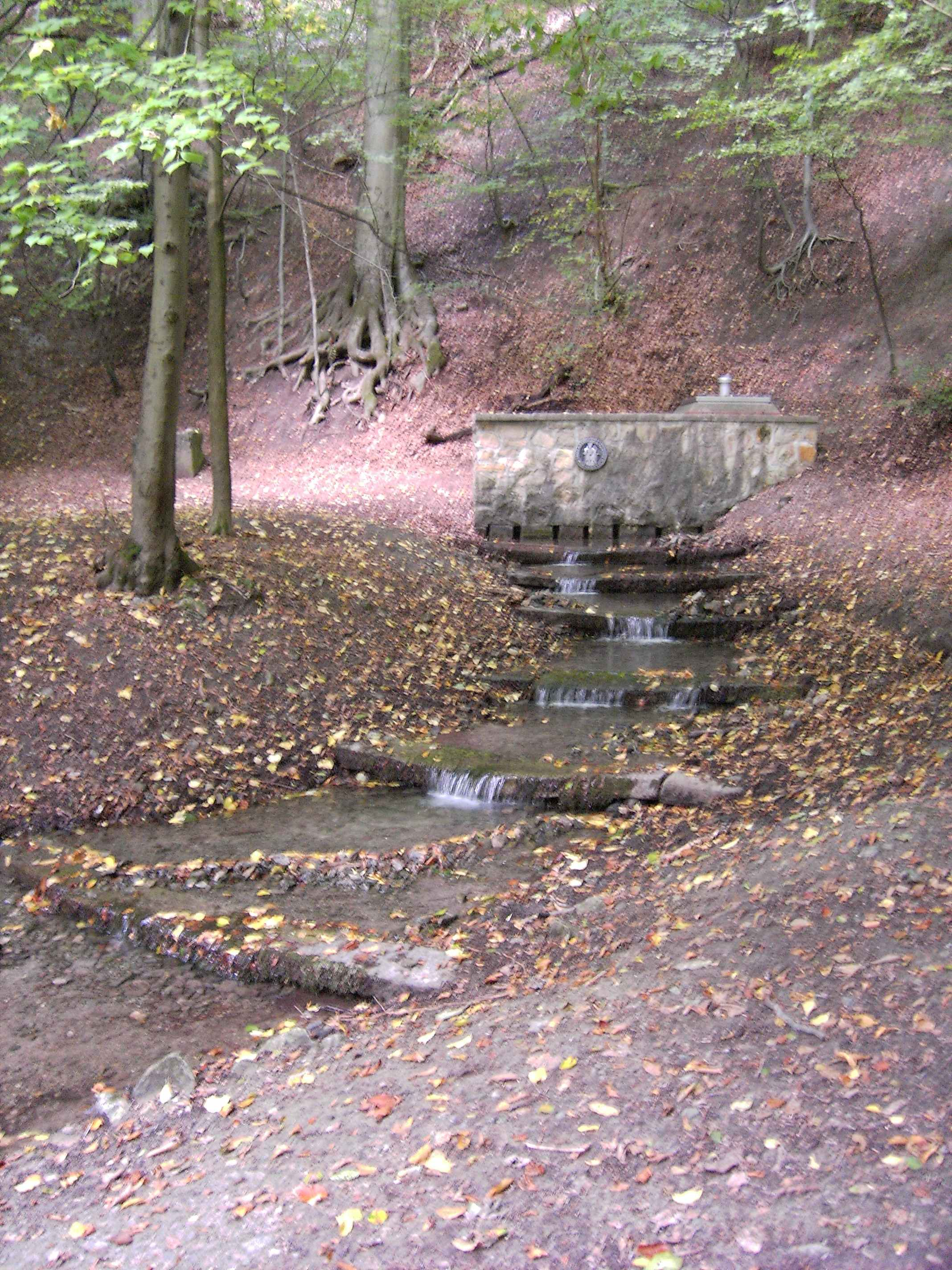 Eastern Apenteich spring. Possibly a pre-historic sacred place, as evidenced by items found nearby which were placed there on purpose.